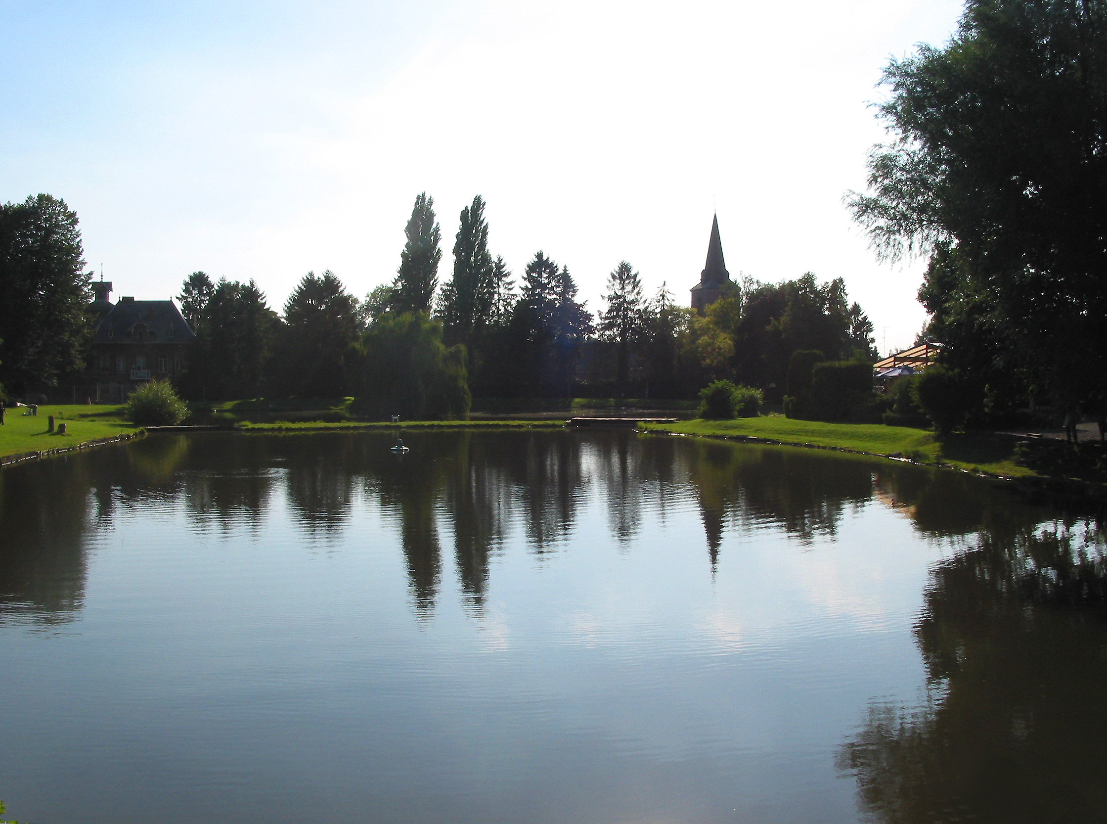 Roisin (Belgium), castle ponds. Walon: Rwazin (Belgique), vèvî do tchèstê.